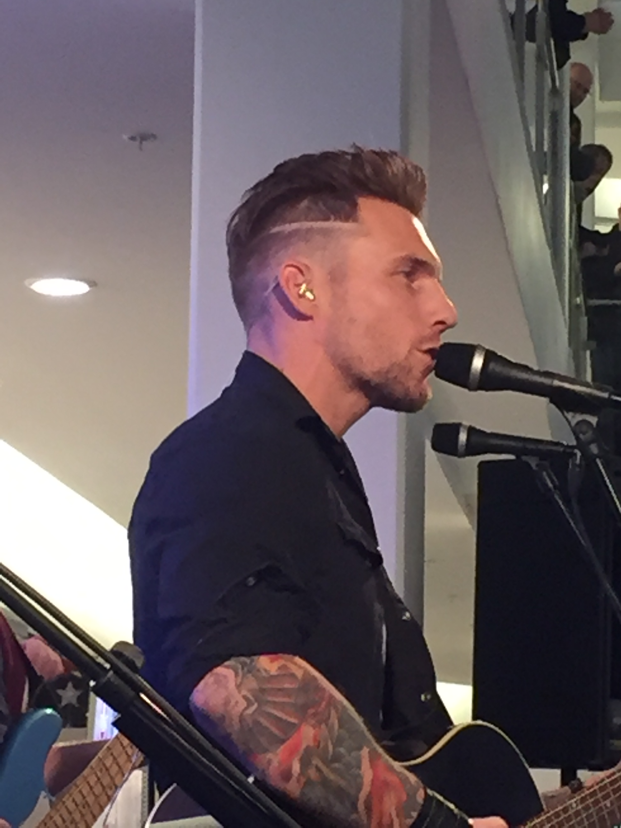 Thomas Hellekås, vocalist in country / folk rock band Byting, performing in the shopping center in Hønefoss, Norway.